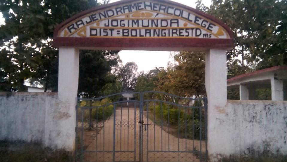 college pic